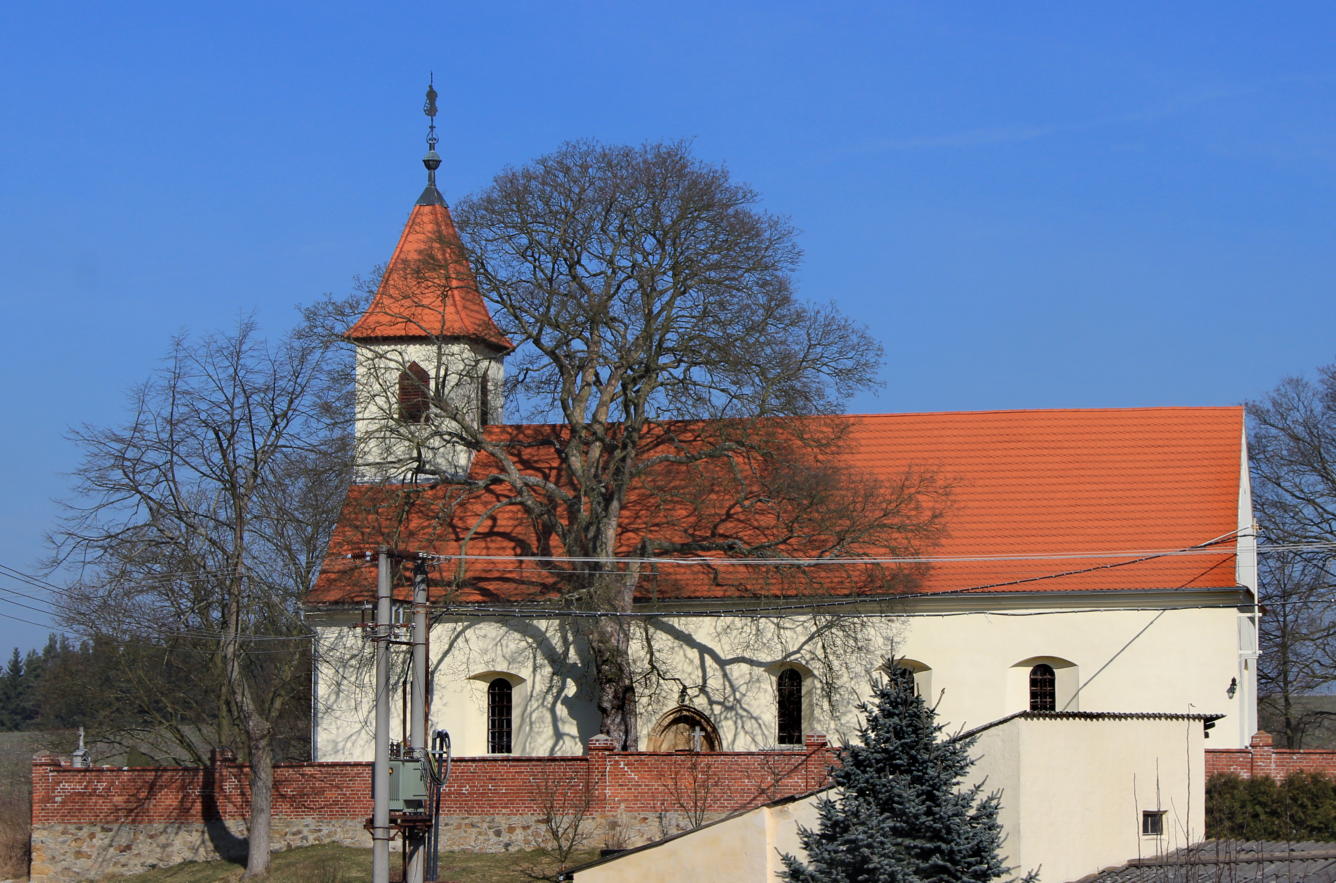 Saint Lawrence church in Sulislav, Czech Republic.